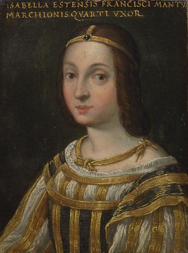 Portrait of Isabella d'Este (1474-1539), wife of Francesco II Gonzaga, Marquess of Mantua